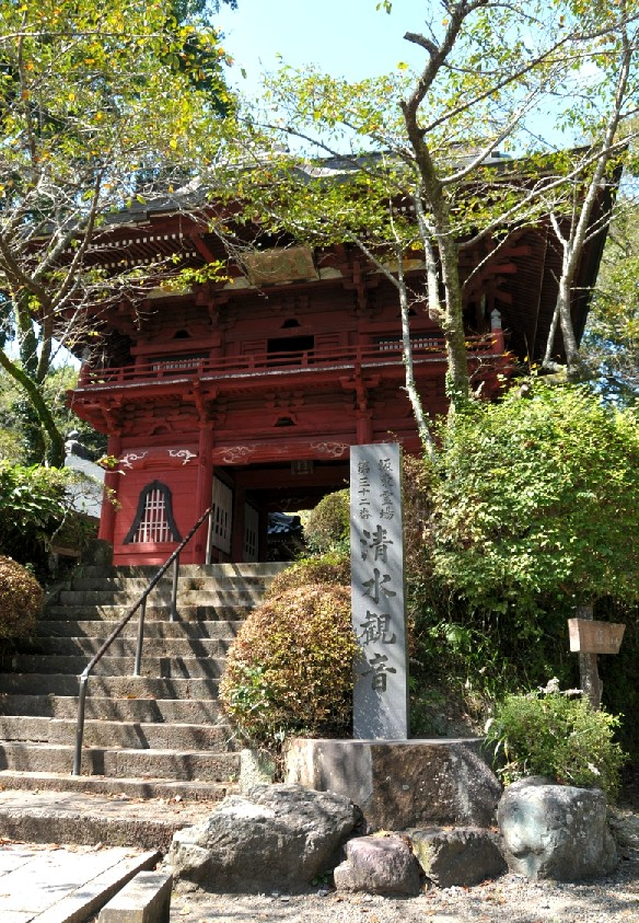 Shiten-mon gate at Kiyomizu-dera temple in Isumi, Chiba prefecture (1822)